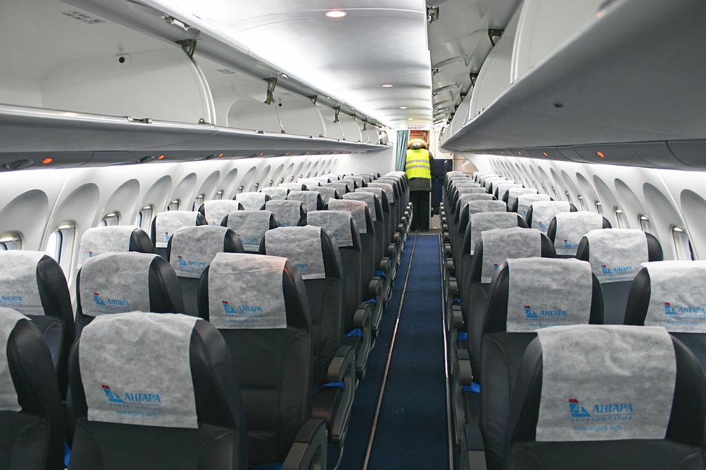 First scheduled flight from Irkutsk of first Angara An-148. An all-economy cabin with 75 seats in 2×3 layout.